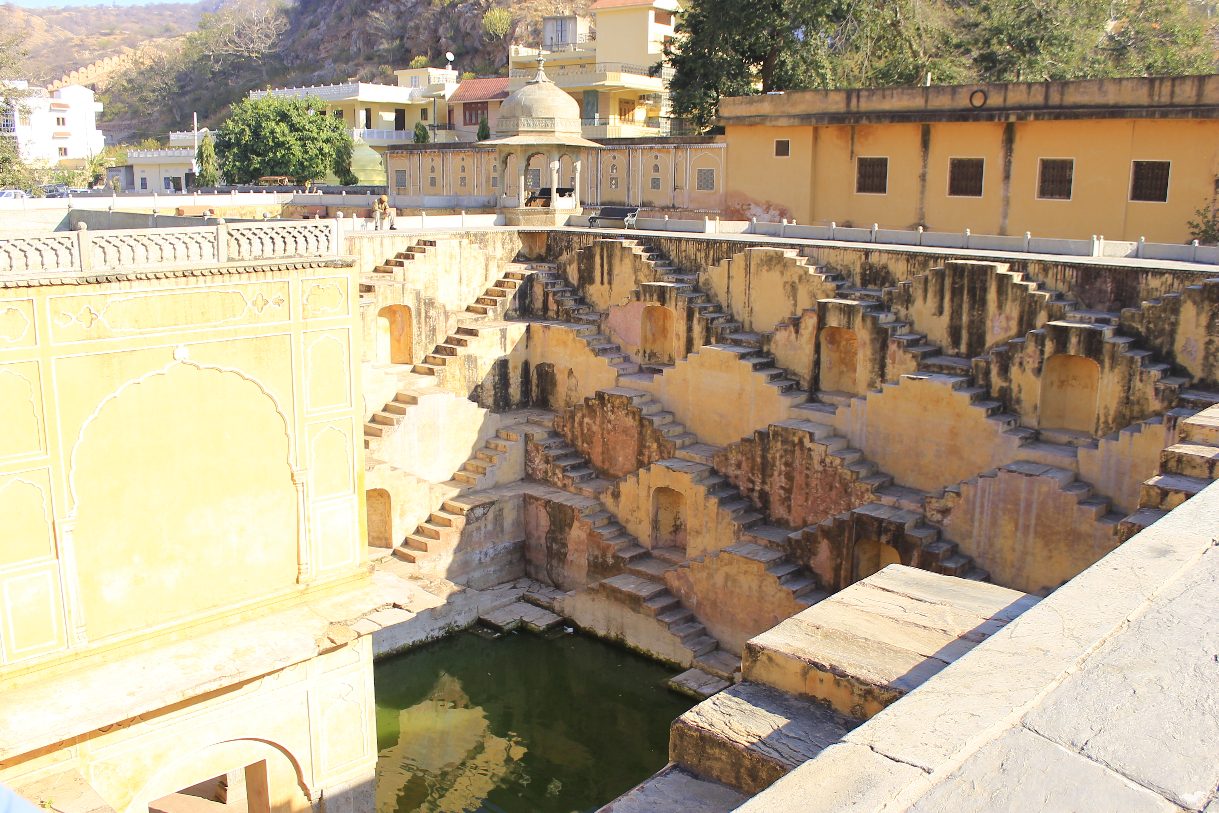 Panna Meena ka Kund. This three-step stepwell is situated near Amber fort. This is one of the heritage way of water harvesting.